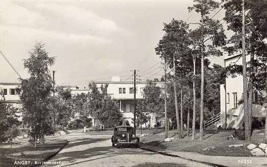 börjesonsvägen, södra ängby, stockholm